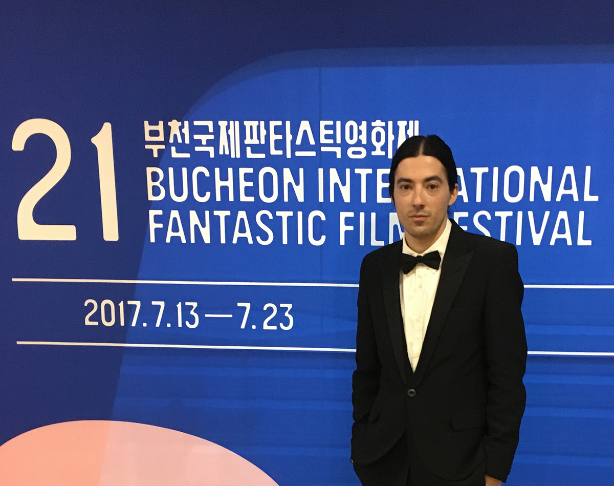 Film director Sadrac González-Perellón in the BIFan 2017, Korea, Seoul.